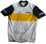 Club colours of Archer Road Club